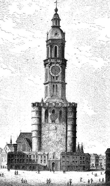 Bell tower of the Saint-Nicholas Church of Brussels. It served as belfry and collapsed in 1714, fragilised by the 1695 bombardments.